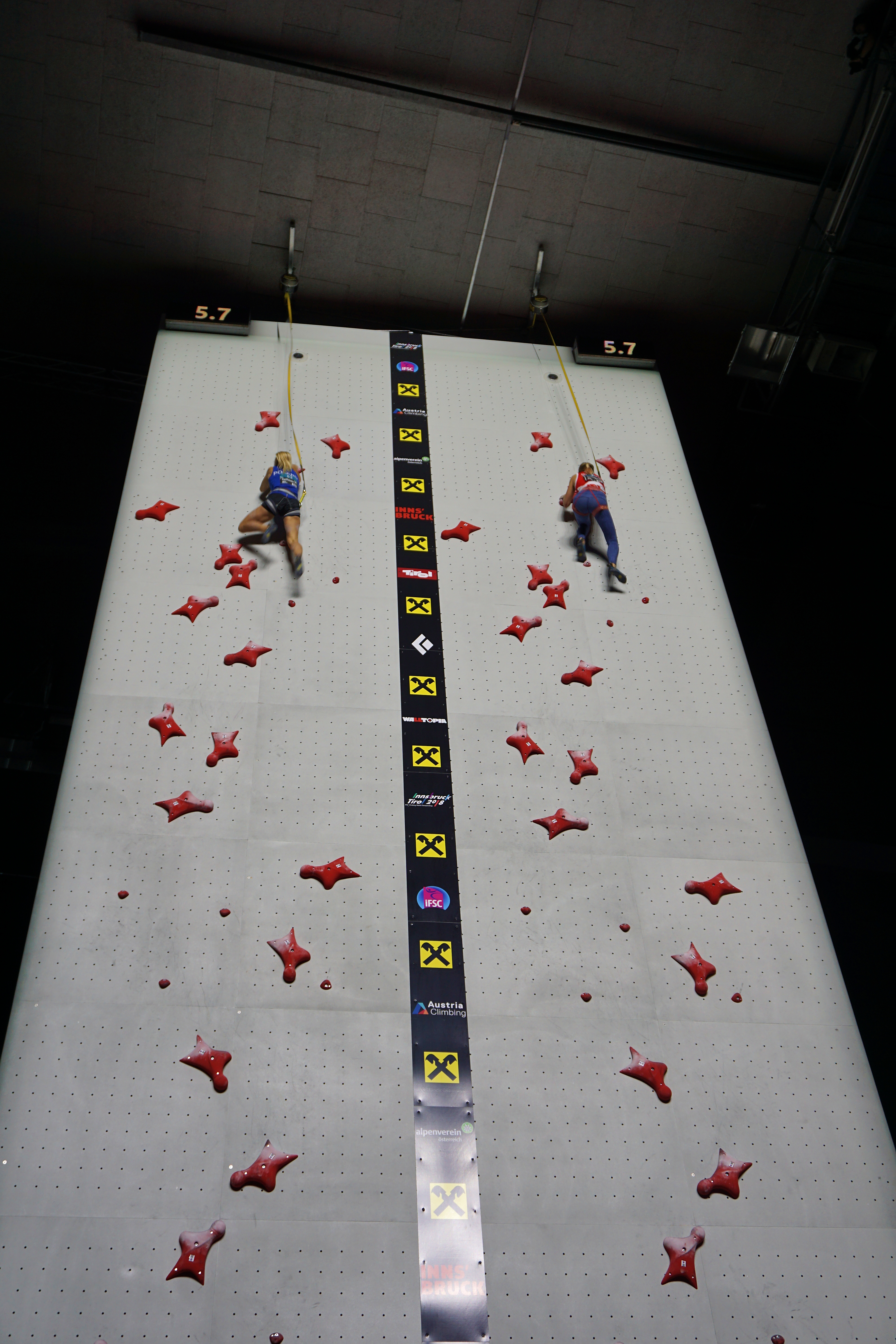 Climbing World Championships 2018 Speed Eighth-finals